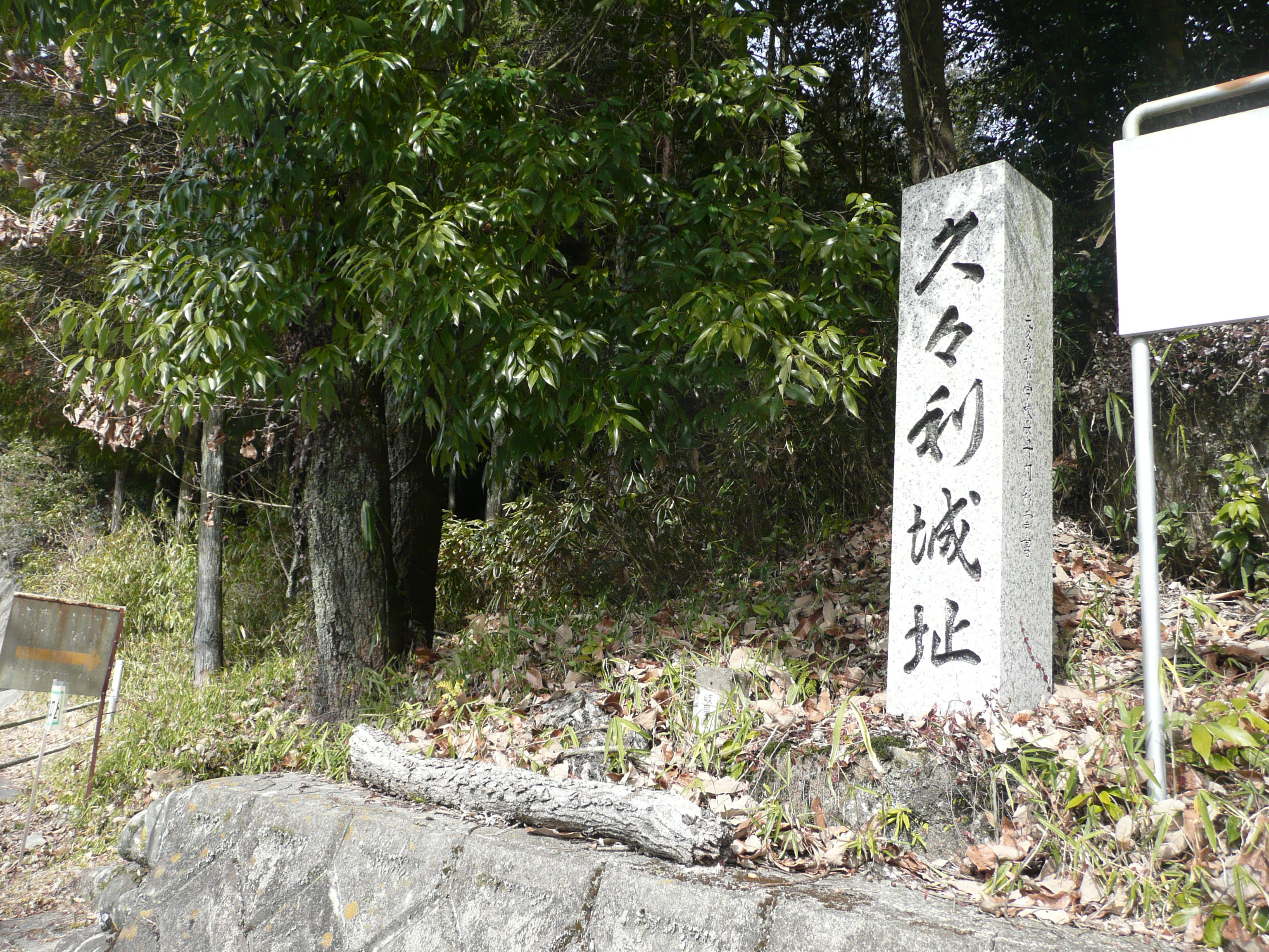 久々利城跡